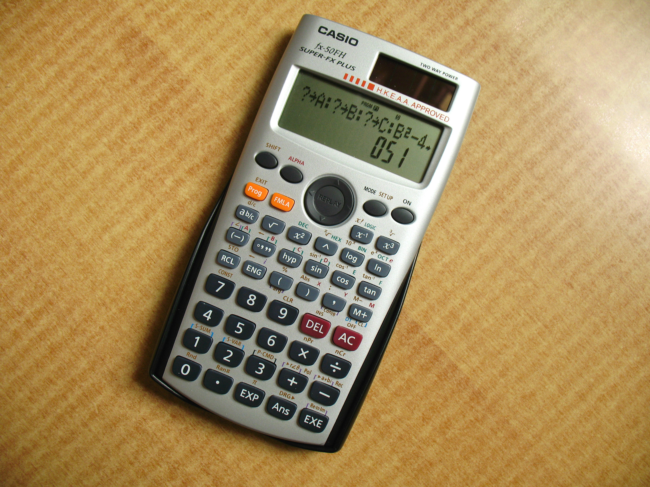 The Casio fx-50FH scientific calculator. 中文（香港）: Casio fx-50FH科學計數機